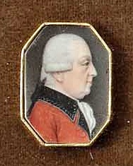 Amrosius Franziskus von Spee (1730-1791), kurpfälzischer Kammerherr und Geheimrat